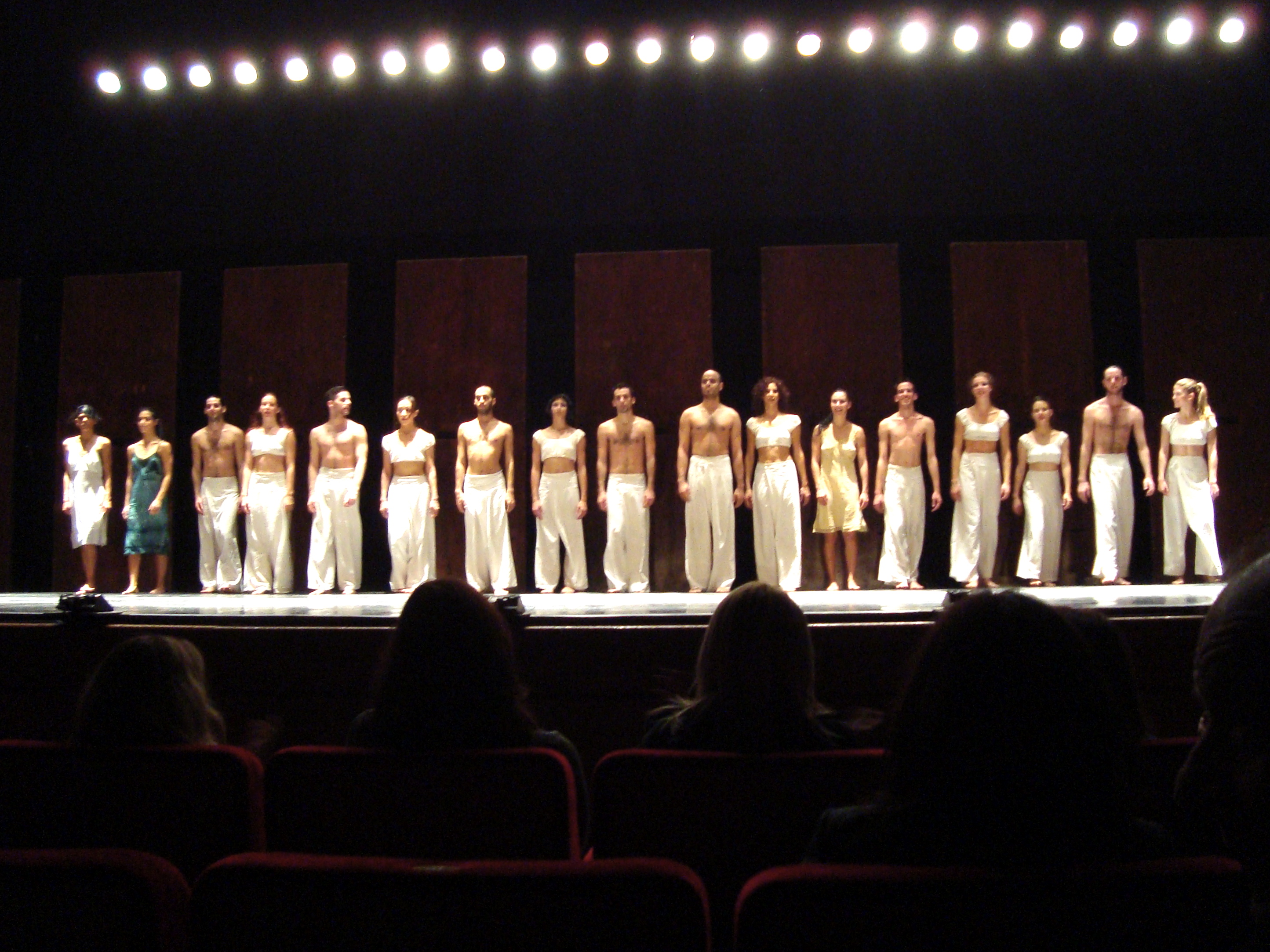 The Kibbutz Contemporary Dance Company at the end of the performance Aide mémoire in january 2010 at the Auditorium Parco della Musica in Rome